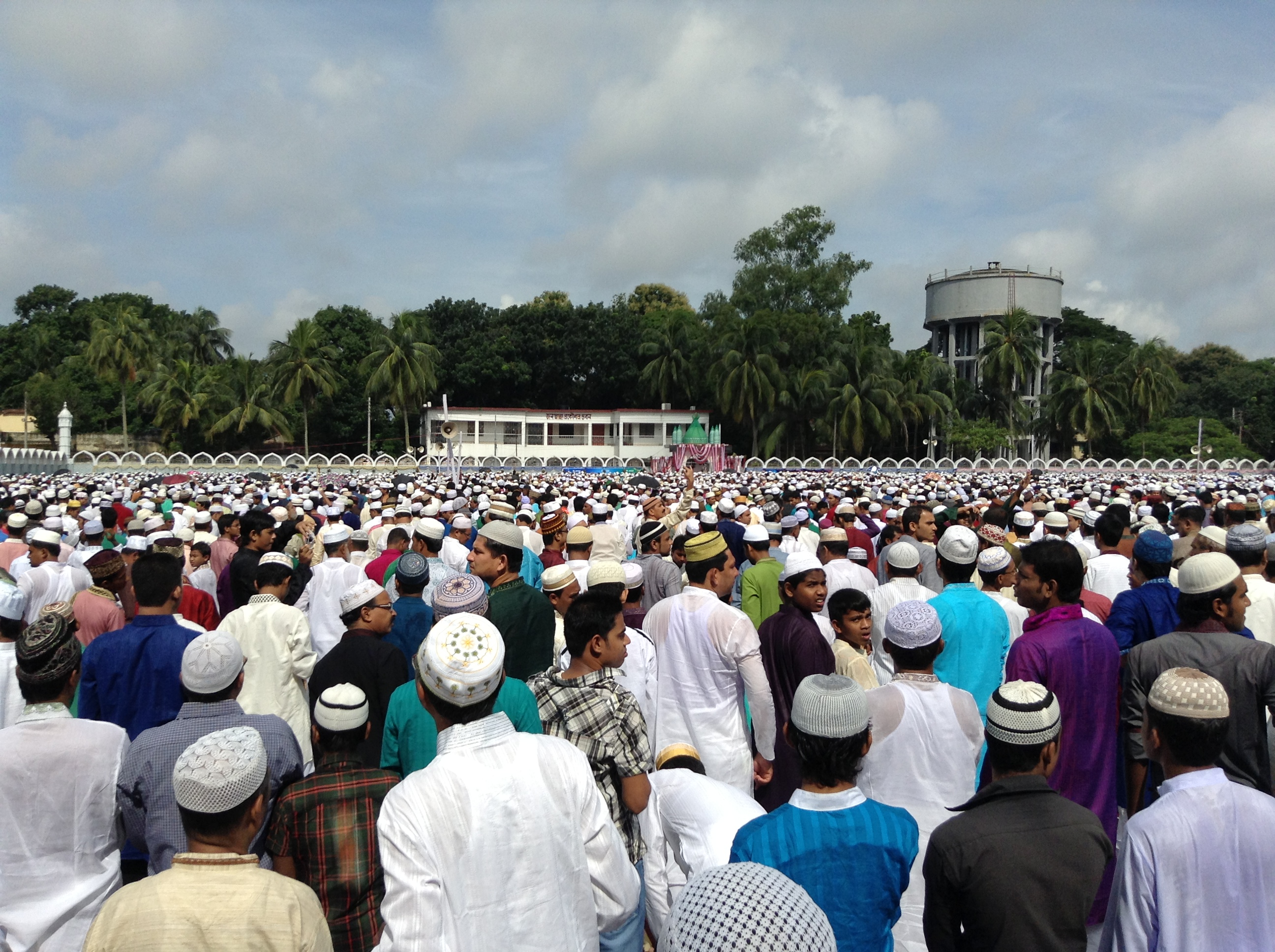 Comilla Eid Gah